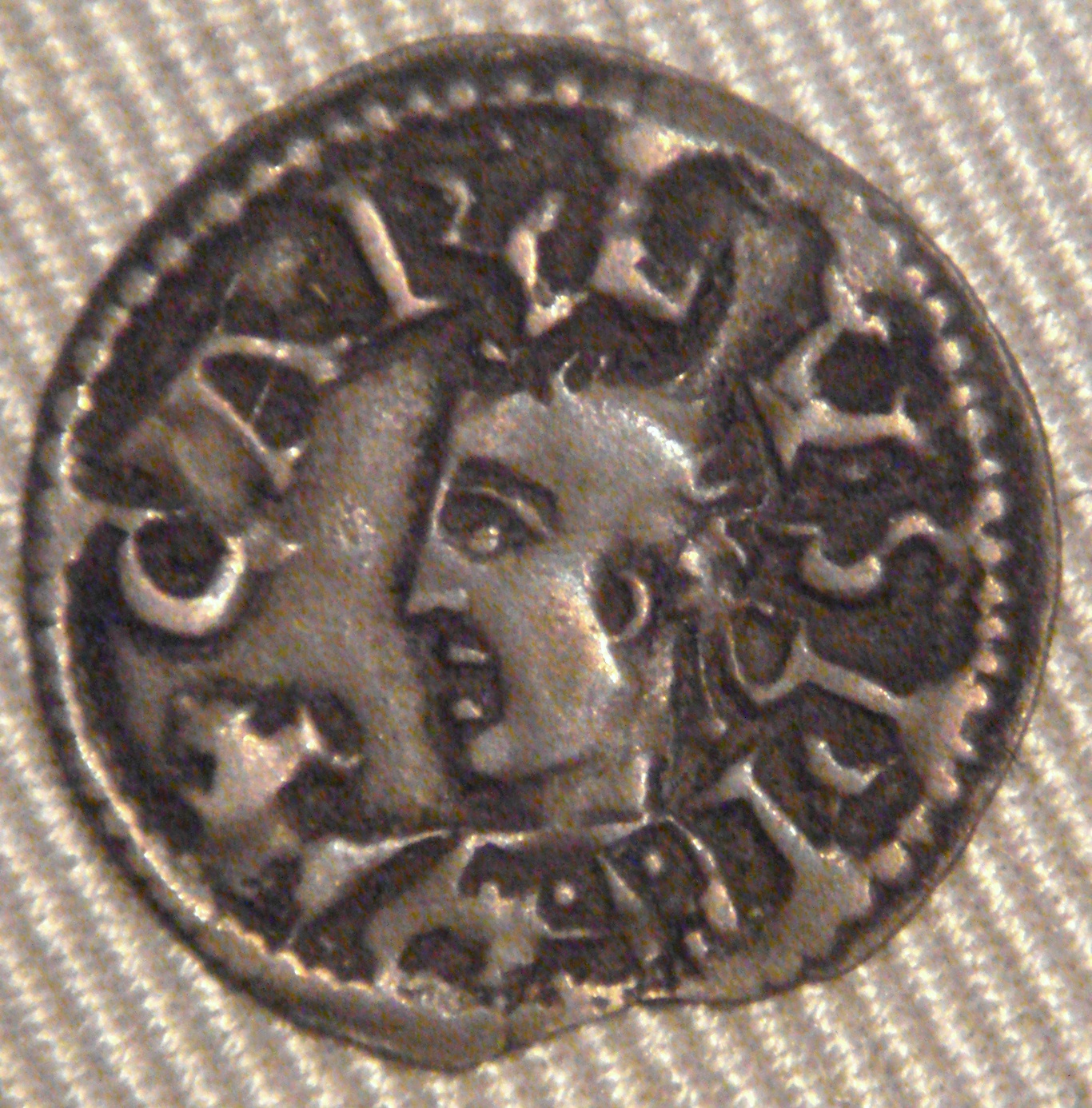 Charles_le_Chauve_denier_Bourges_after_848.